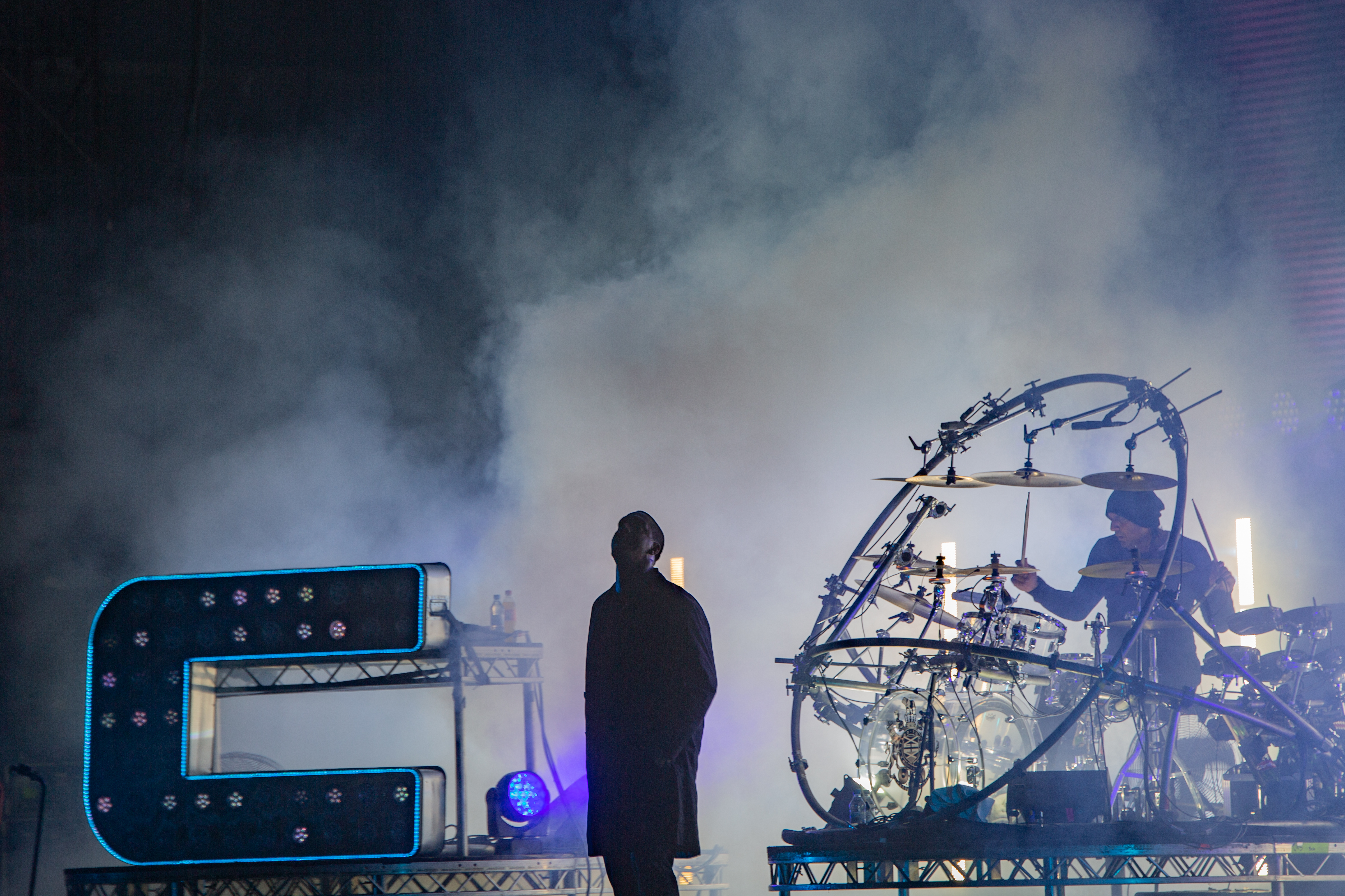 MC Rage with Chase & Status at SonneMondSterne 2018, Main Stage